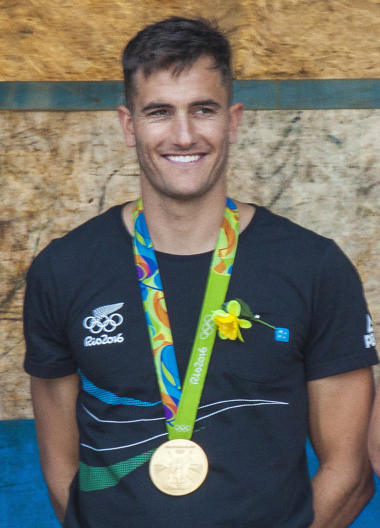 New Zealand double Olympic medallist Blair Tuke in his hometown of Kerikeri, August 2016. Own work by User:Moriori.